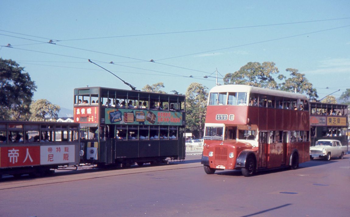 A double-decker bus, two double-decker trams (street cars) and a trailer in Queen's Road Central, 1967.